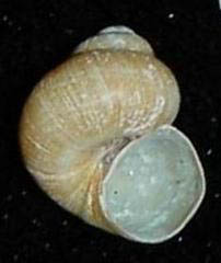 photo of the shell of Valvata picinalis